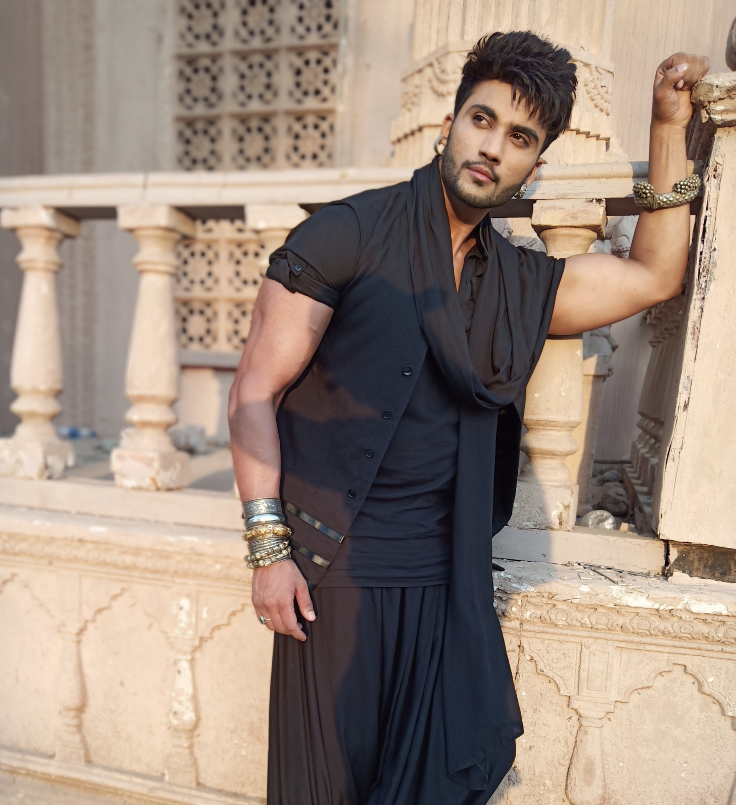 This is an image of actor Zuber K khan